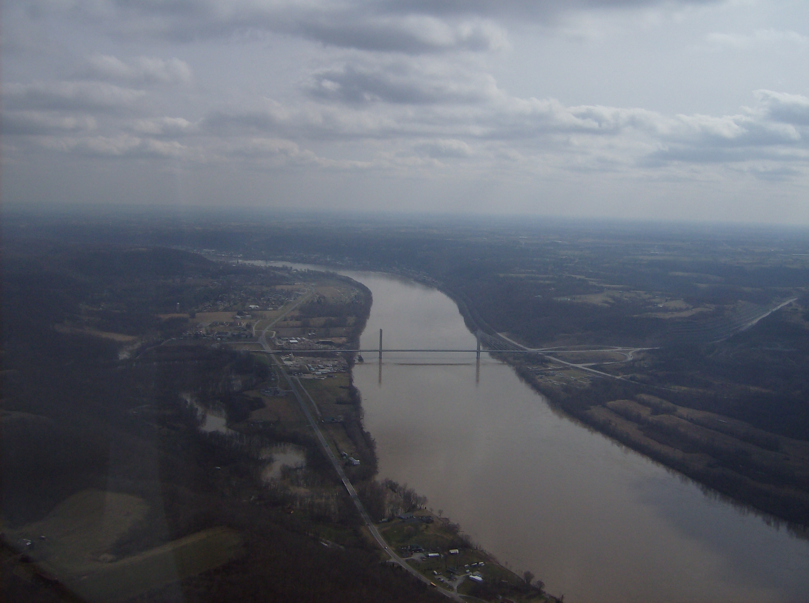 Along the Ohio River just below Aberdeen, Ohio (left side) and Maysville, Kentucky (right) in the United States. Bridge is the William H. Harsha Bridge, which carries U.S. Routes 62 and 68 over the river. Lighter area on the left side is a reflection. Picture taken at an angle of 184º (almost directly south), looking upriver.